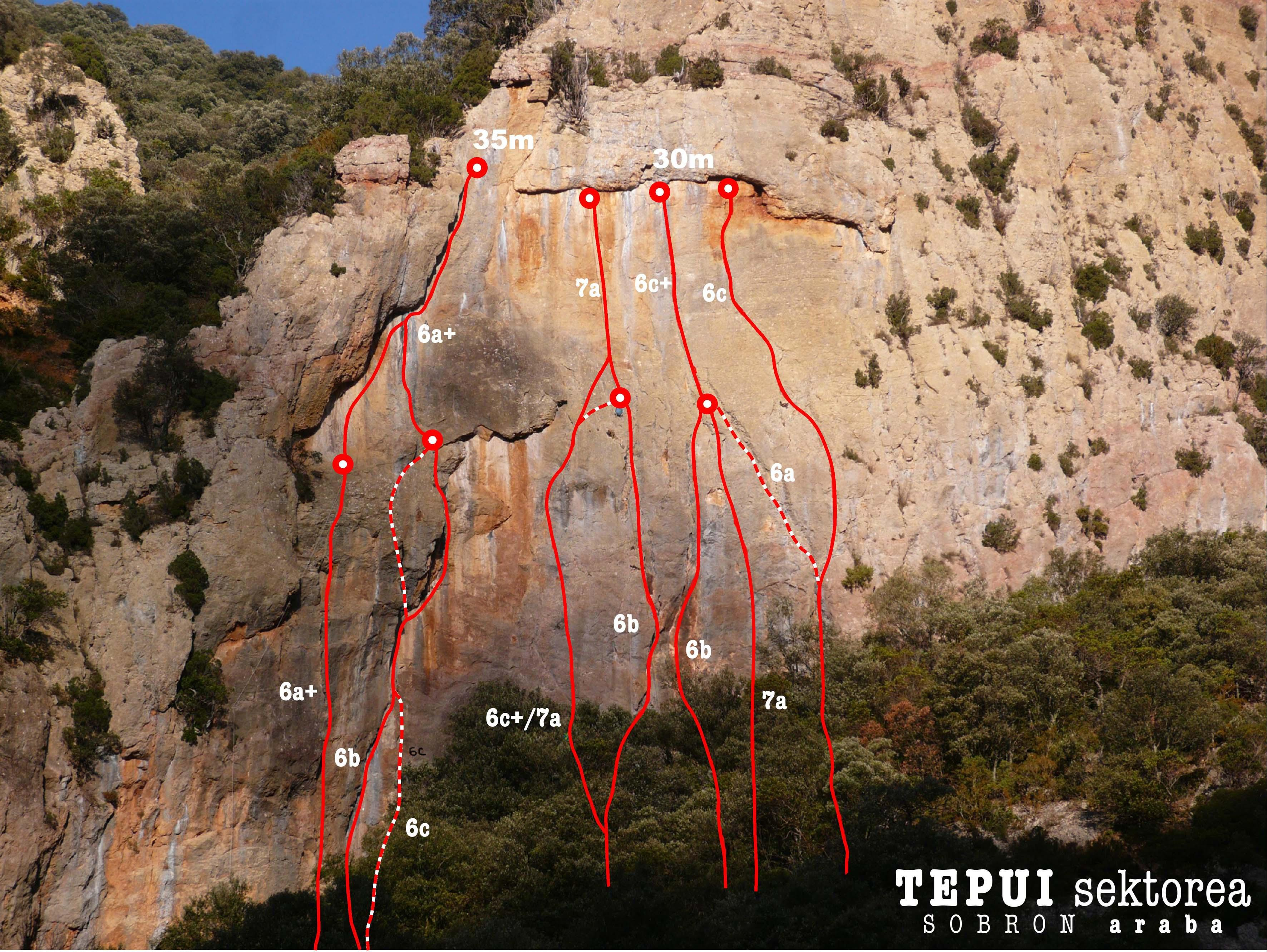 Climbing routes in Sobron, Alava, Euskalerria, Spain